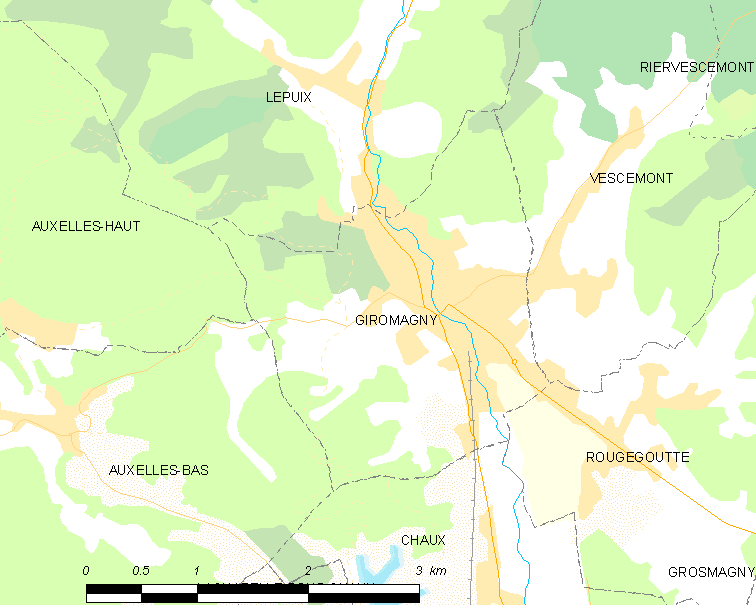 Map of French municipality Giromagny